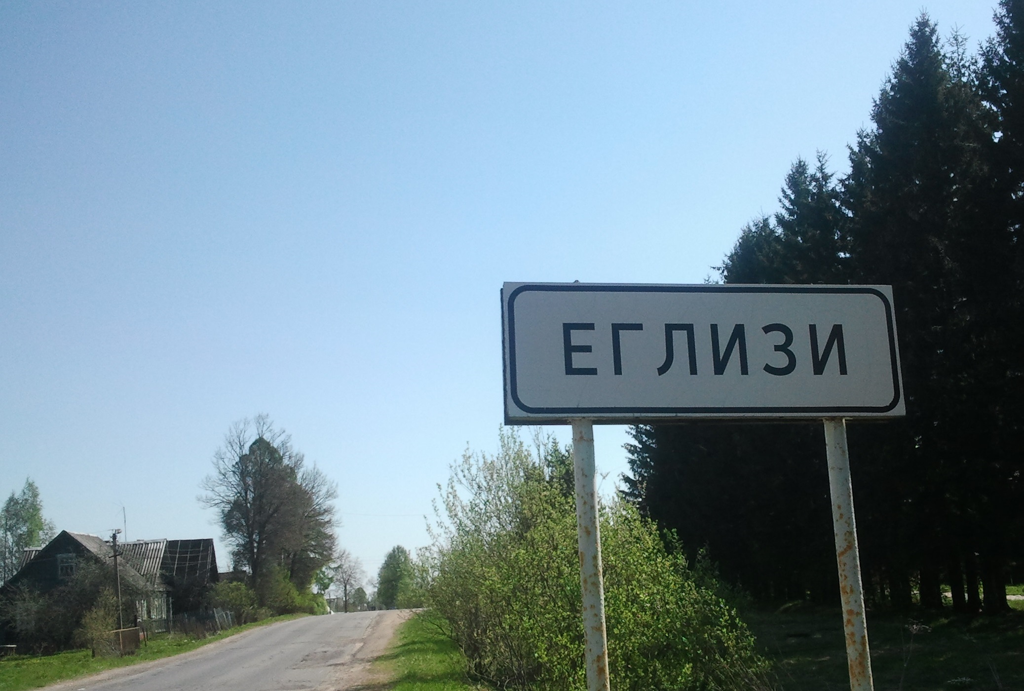 Eglizi village. Tosno district, Leningrad oblast, Russia